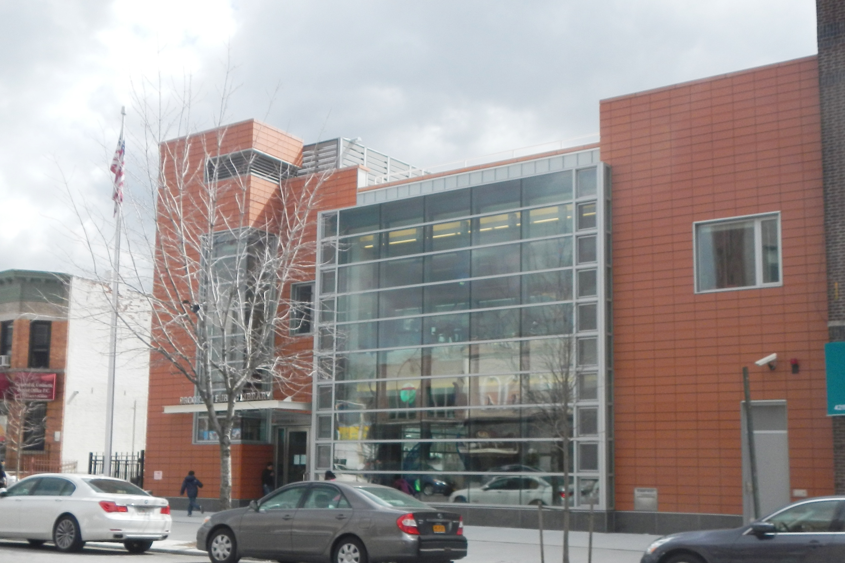 Looking east across 18th Avenue at recently opened library on a mostly sunny day.